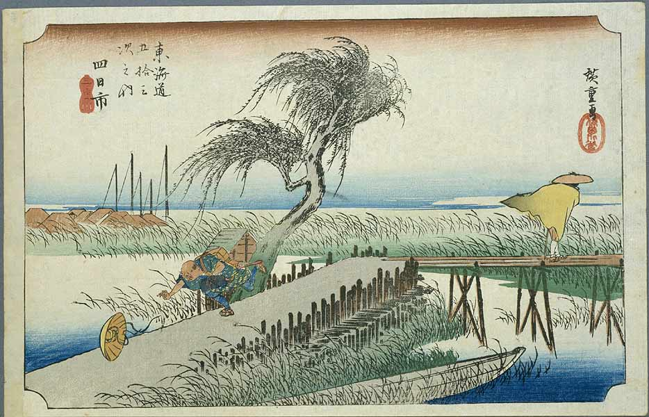 Yokkaichi on the Tokaido, ukiyo-e prints by Hiroshige